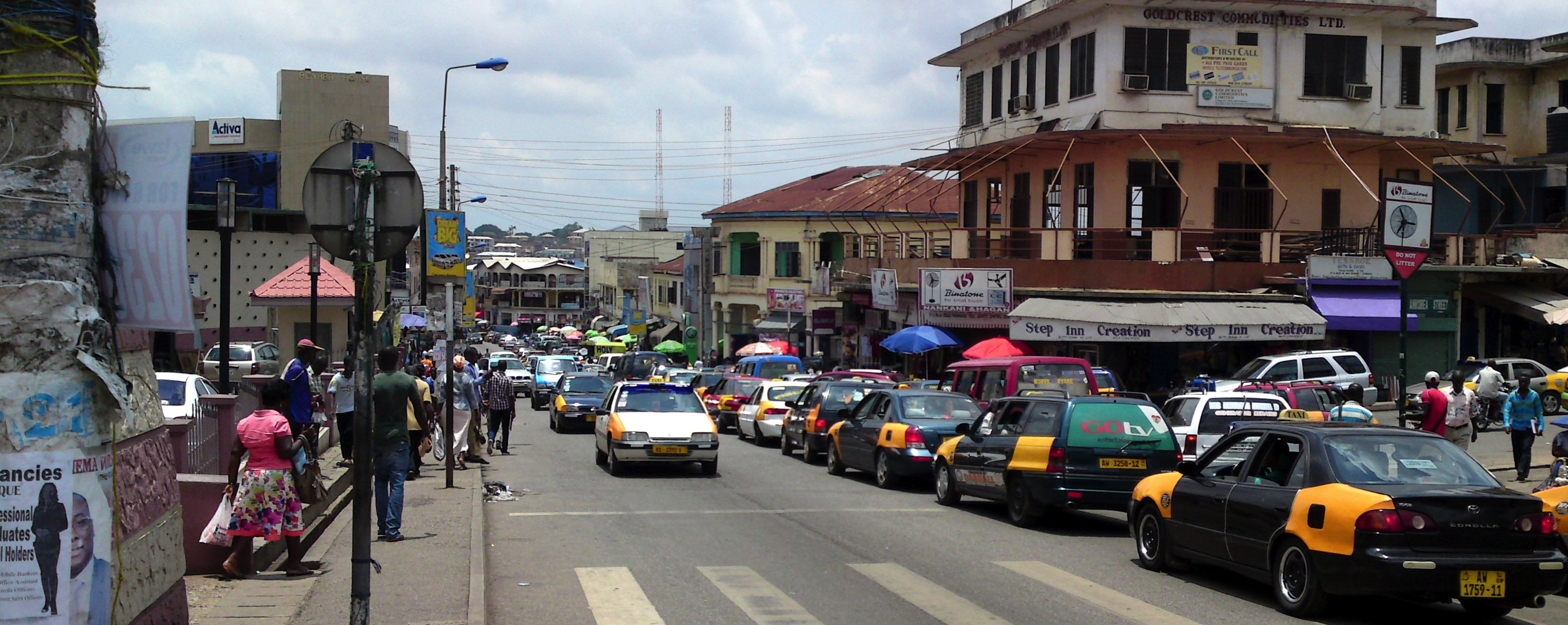 Panorama: Street and Taxicabs in Kumasi, Ashanti Region, Ghana.